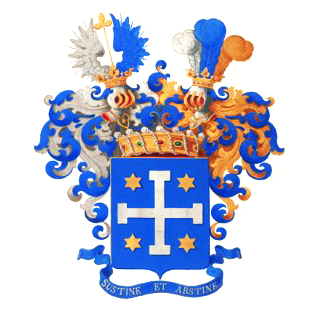 Coat of Arms of Nicolai family